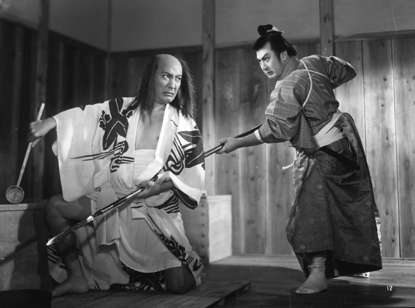 Tsumasaburō Bandō and Utaemon Ichikawa in Ōedo gonin otoko (大江戸五人男) directed by Daisuke Itō - 1951